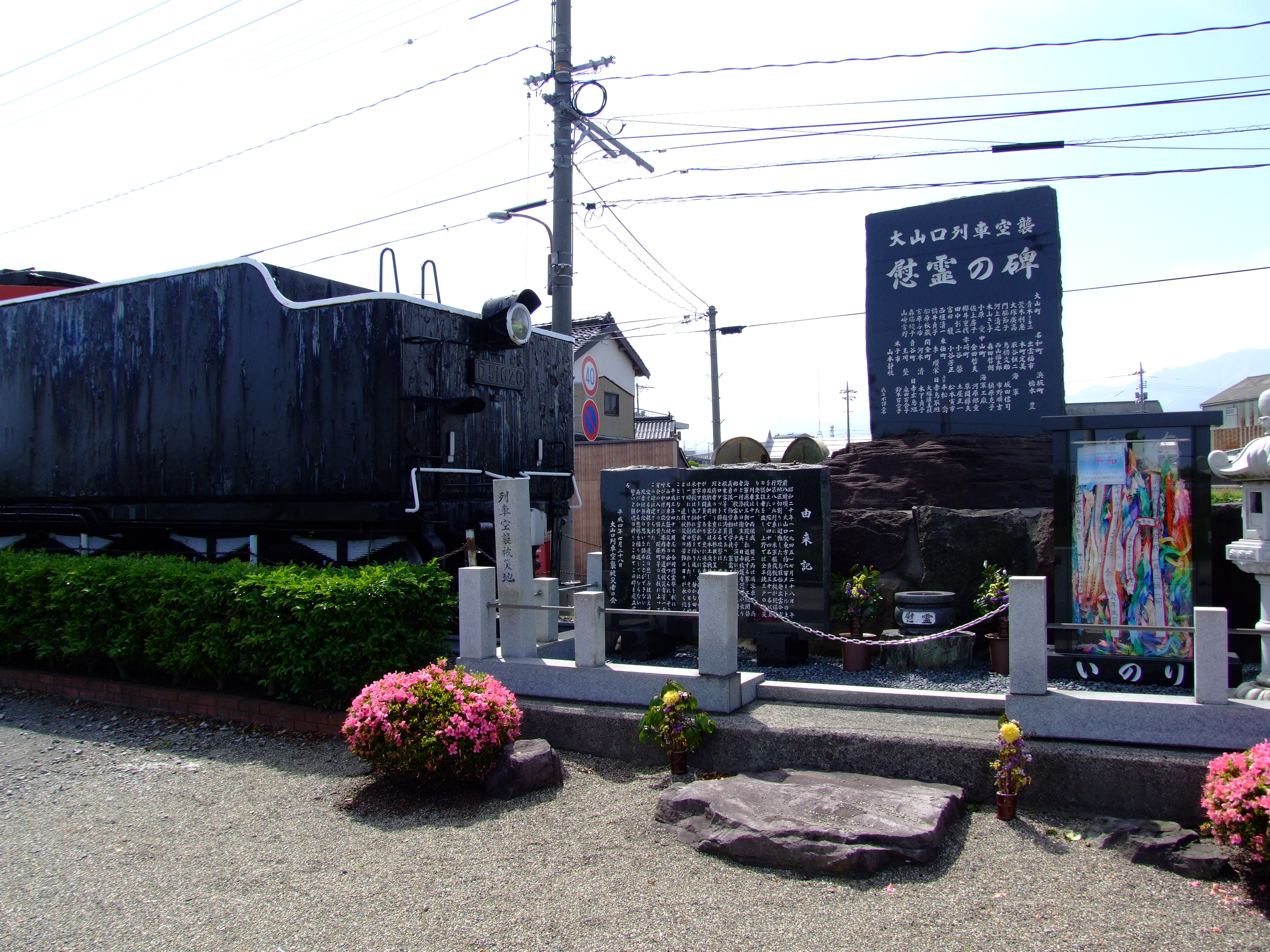 "Daisenguchi Station" train air raid incident memorial monument.